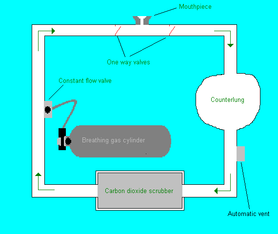 A simplified diagram of a semi-closed circuit rebreather